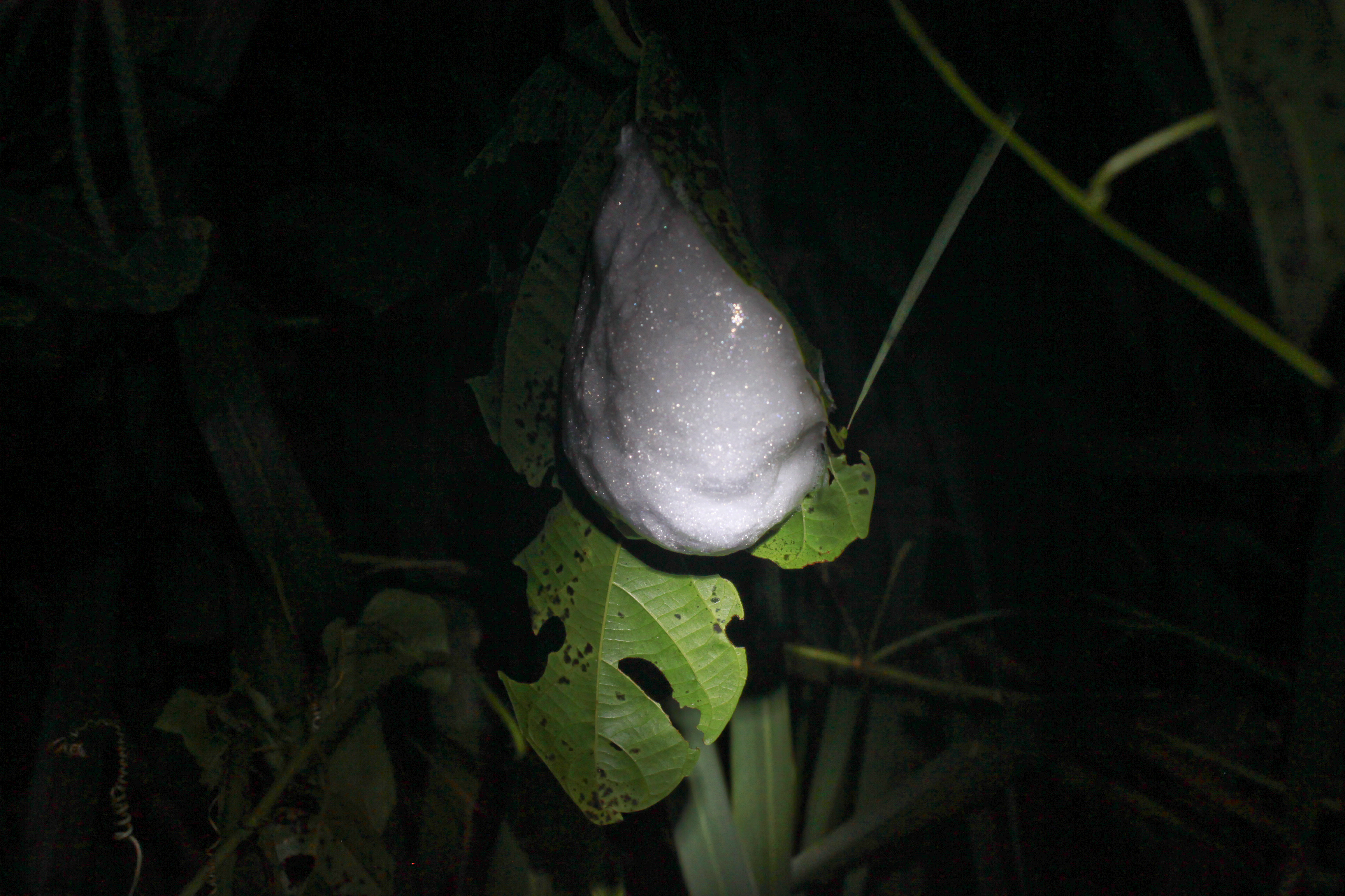 Foam nest of Chiromantis rufescens. Libreville, Gabon.